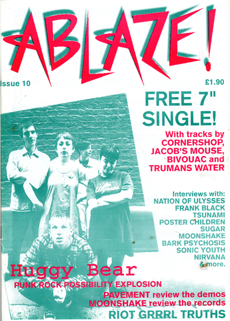 Front cover of Ablaze! issue 10 starring Huggy Bear. Leeds, UK, 1993.